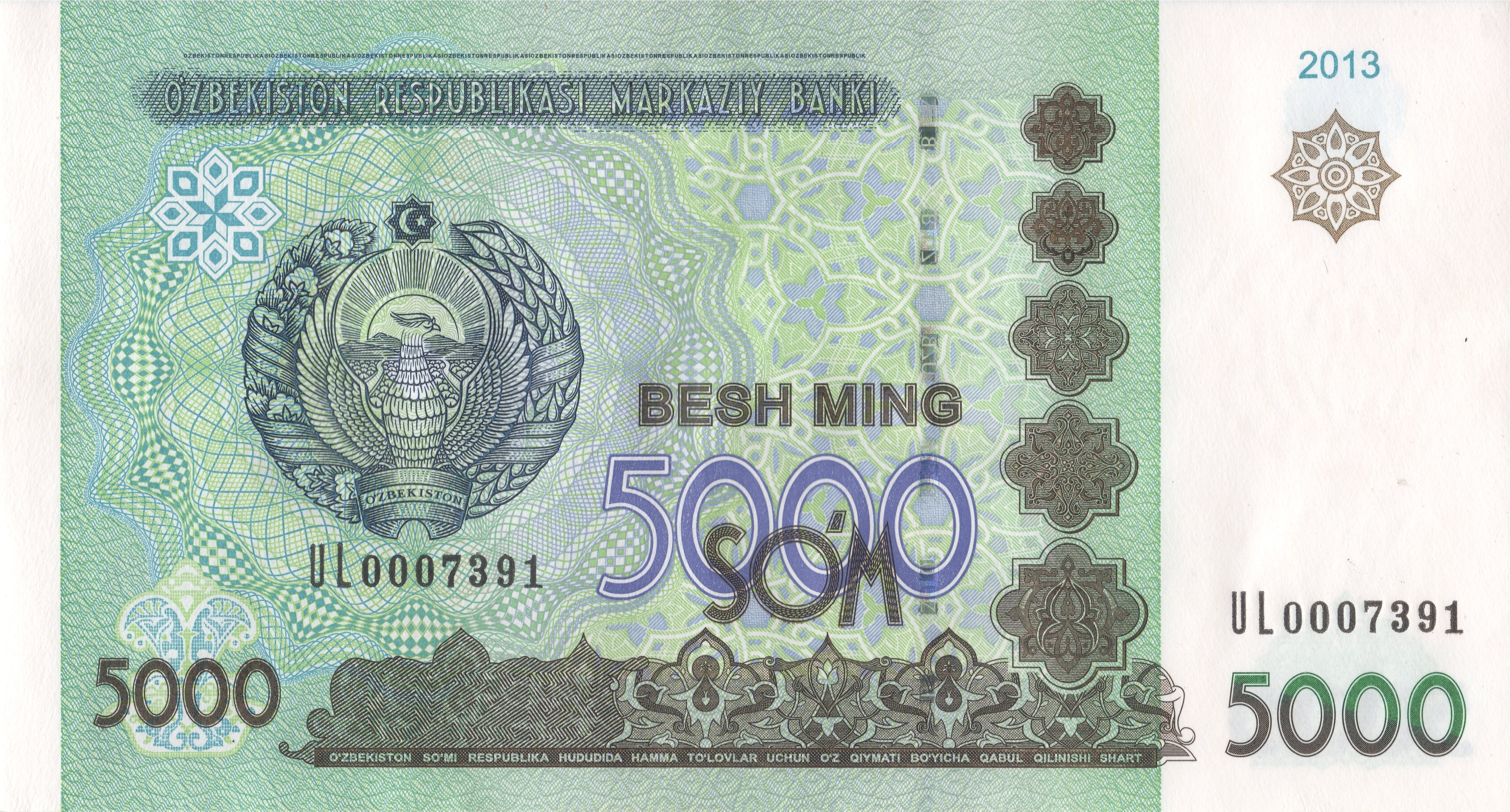 5000 soms of Uzbekistan (2013)